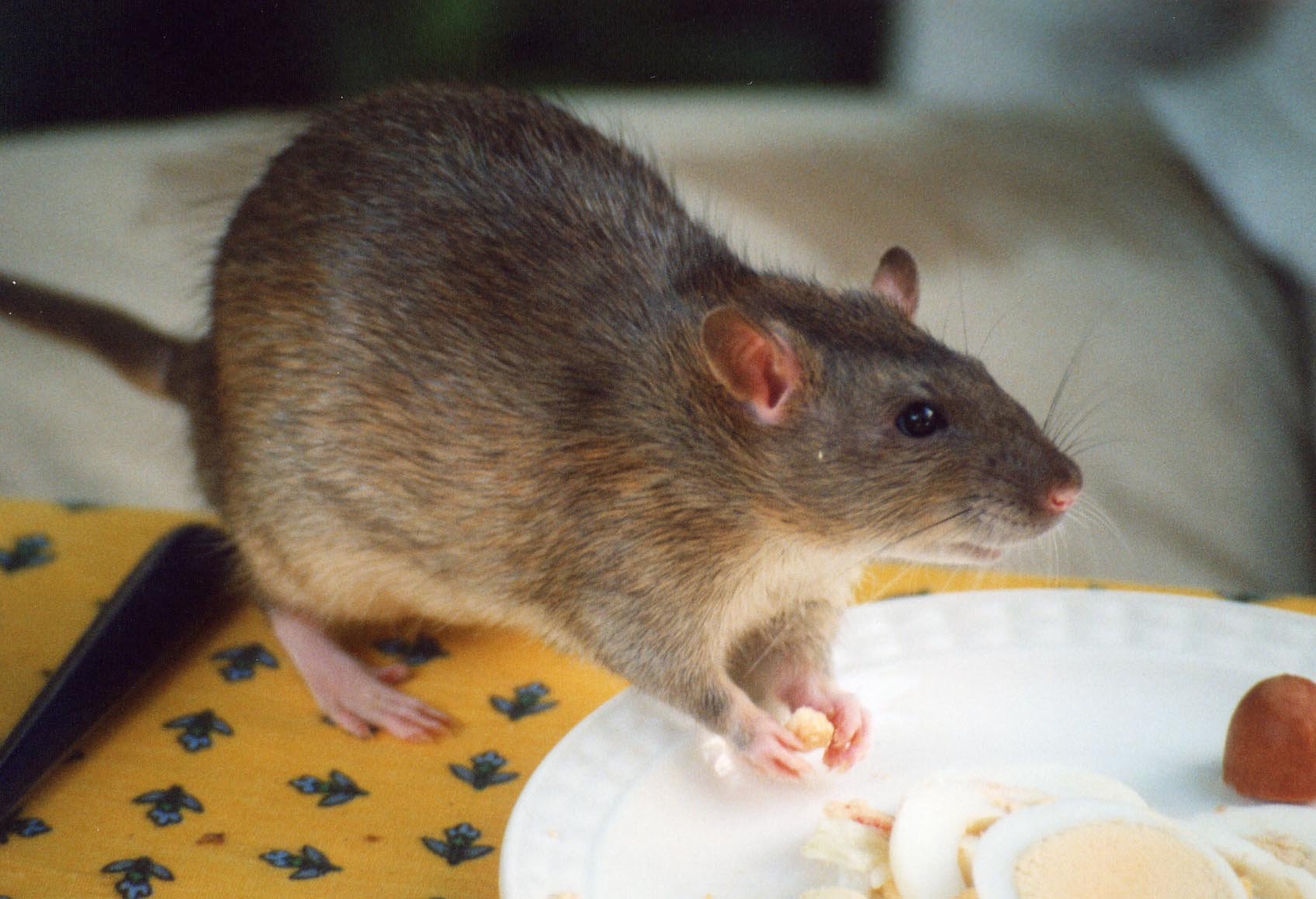 Fancy rat, wild colour: agouti Photo: Joanna Servaes (With thank from her website)